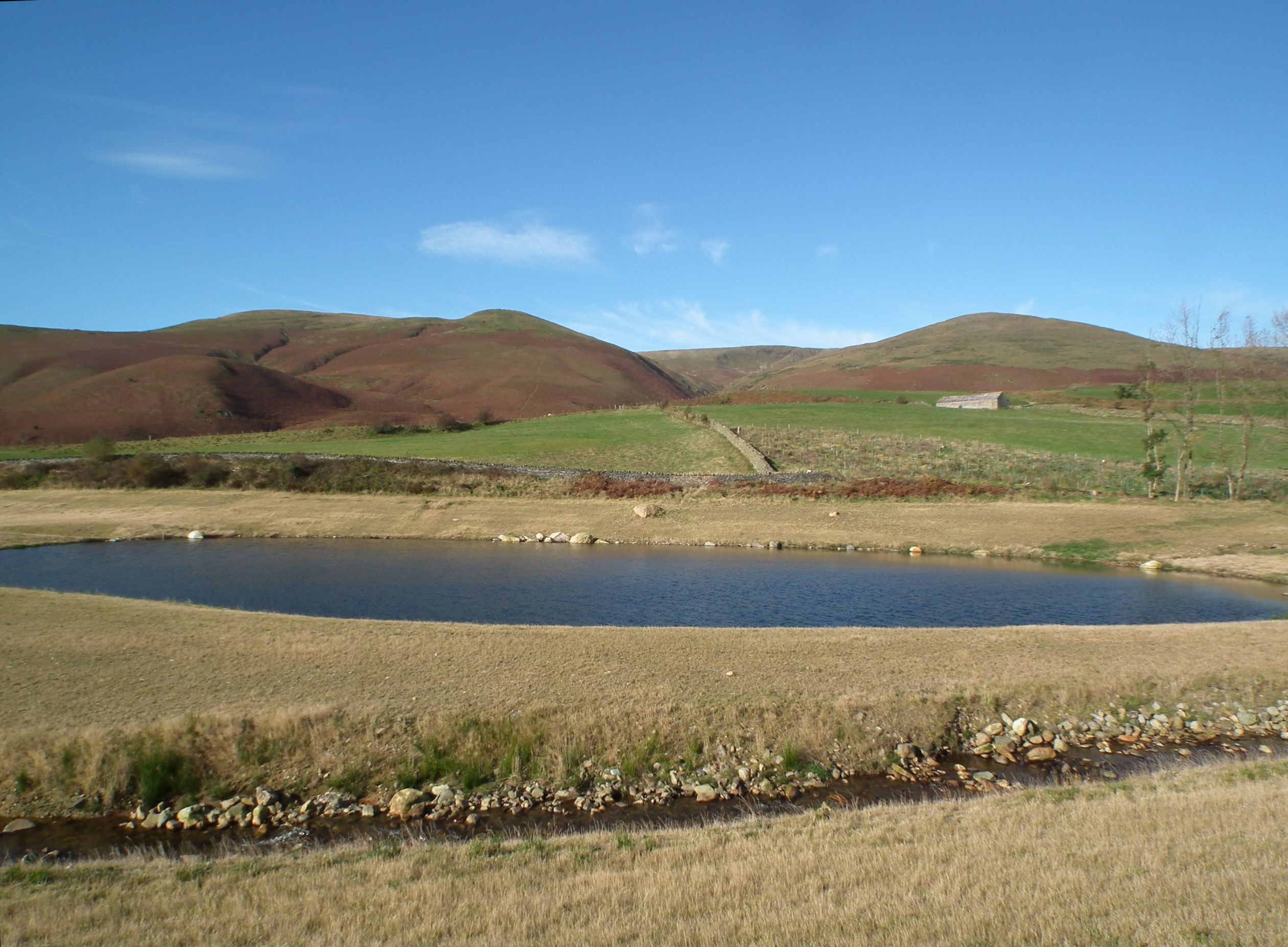 The site of the dismantled Baystone Bank Reservoir, where a waterbody has been retained